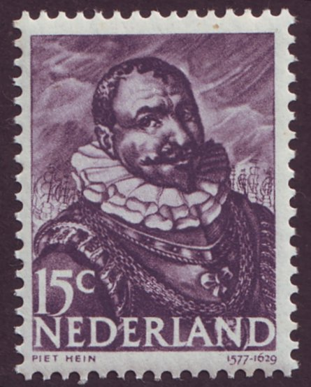 Admiral Piet Hein (1577-1629) on a stamp from 1943.